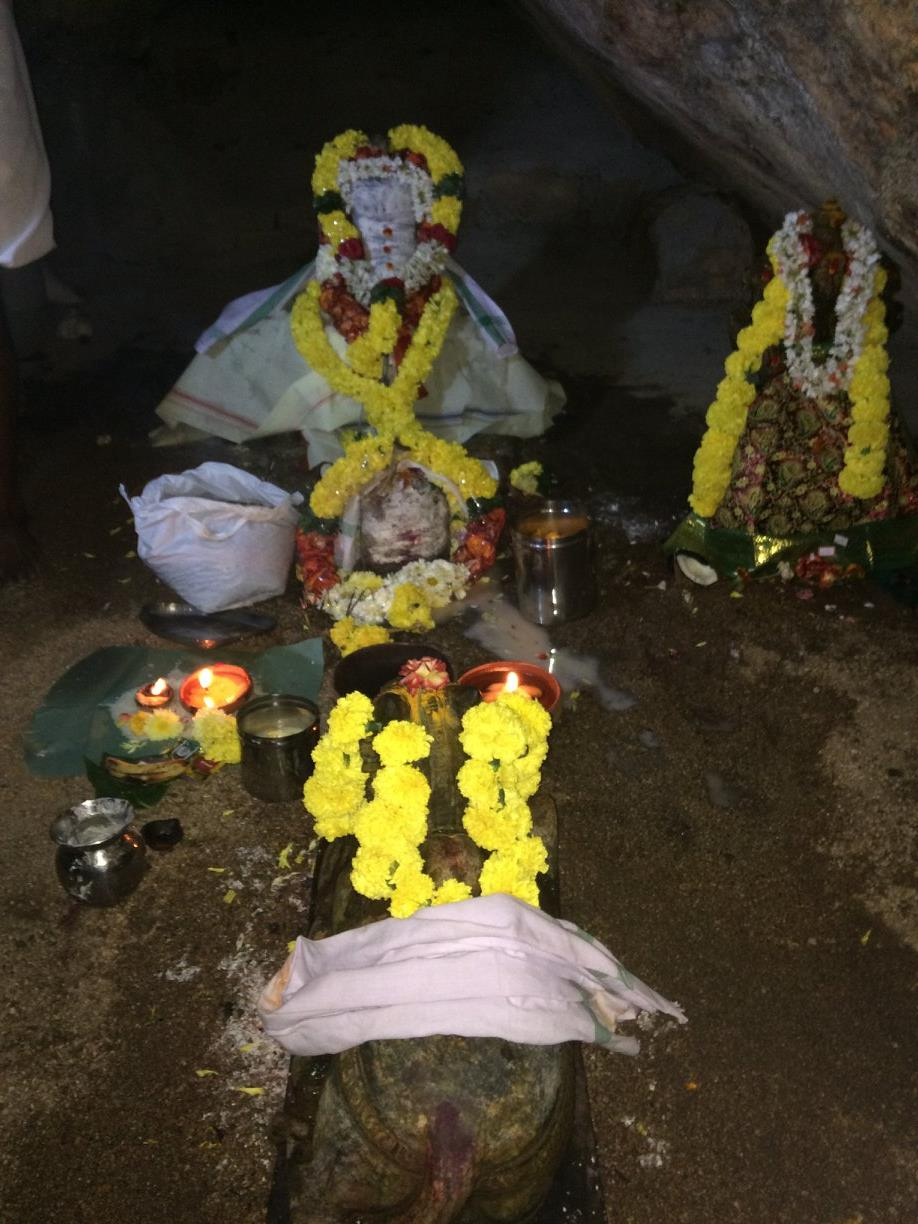 idols